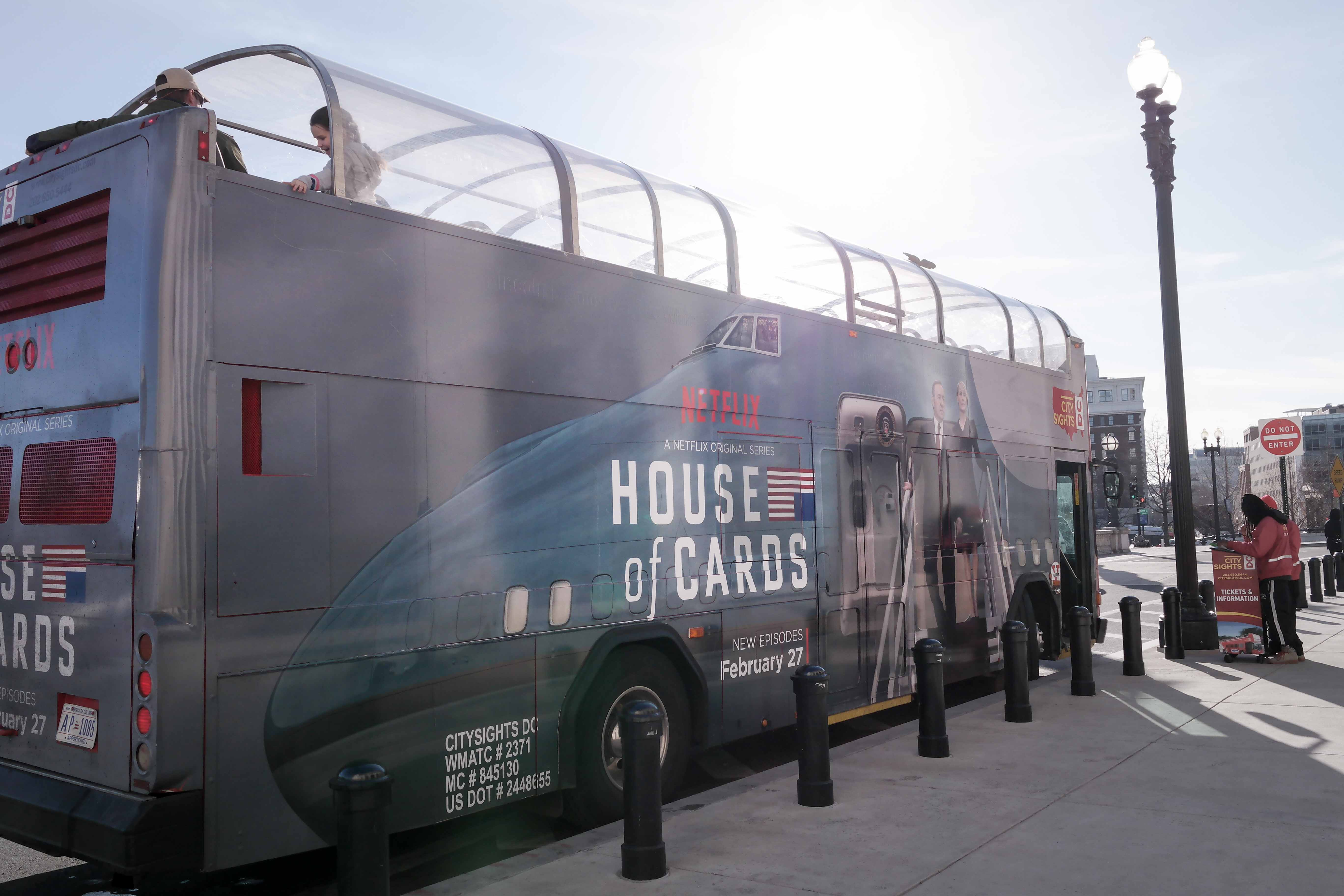 A sightseeing bus in Washington, DC